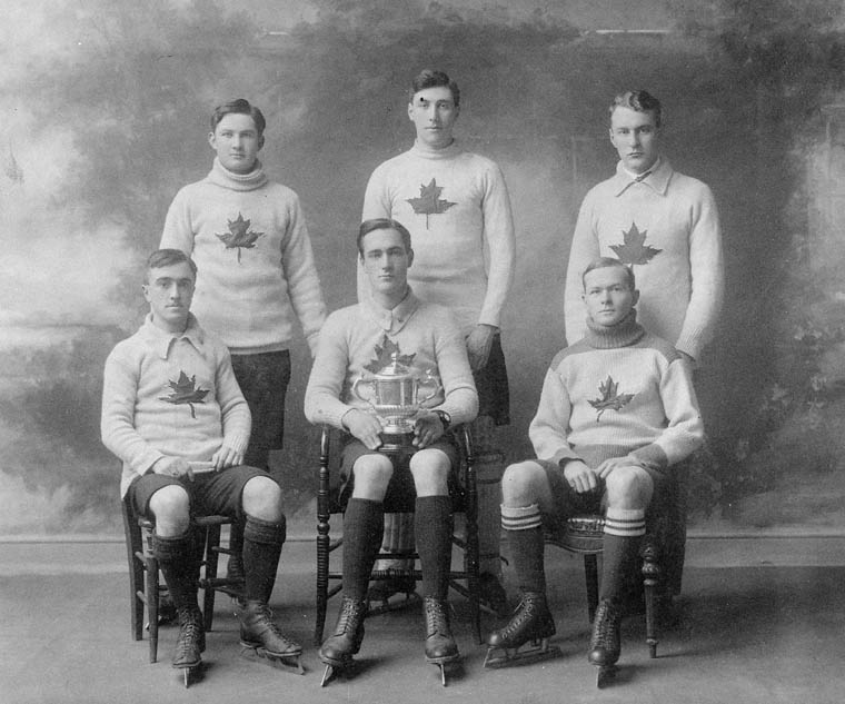 Oxford Canadian Ice Hockey Team. Champions of England, 1909-10. Left to right, front row: Gustave Lanctot, E.A. Munro (captain), H.R.L. Henry. Back row: J.G. higgins, J.M. Mitchell, C.A. Adamson.